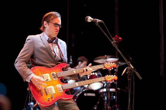 Joe Bonamassa in the Cordoba Guitar Festival (Spain)